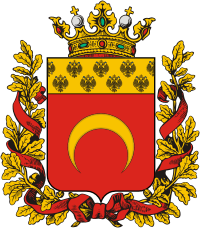 Coat of arms of Semirechye Province, Russian Empire